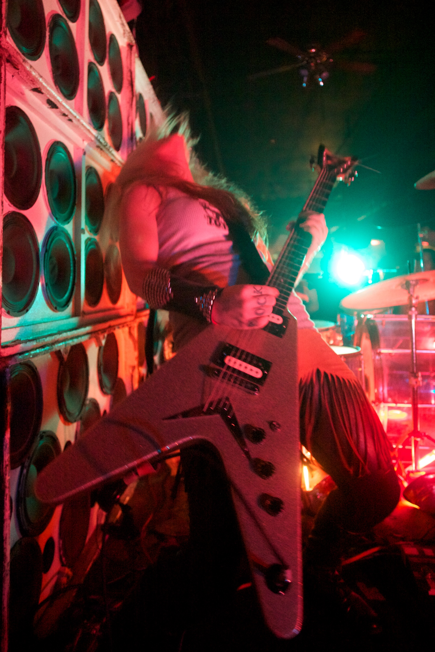 A wicked ass photo of Jucifer with a flying V electric guitar taken at Funky Winkerbeans in Vancouver. References Adam Wills; Kyle Harcott (2010-08-11). Jucifer/ Mendozza/ Ahna @ Funky Winkerbean’s, Vancouver BC, August 6, 2010 (review). Hellbound.ca.